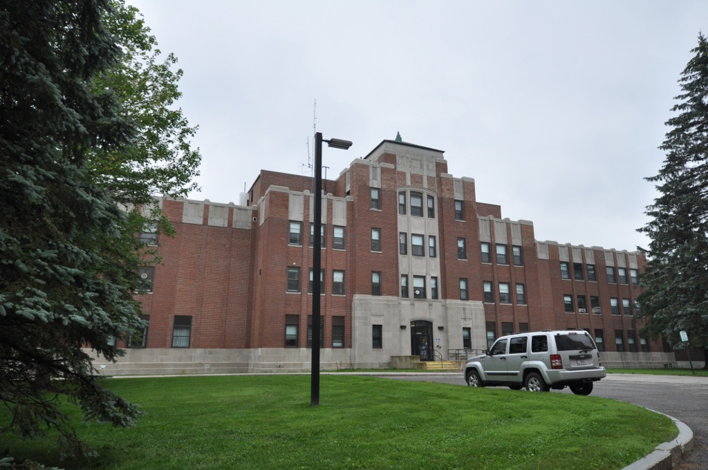 Togus VA facility, Chelsea, ME